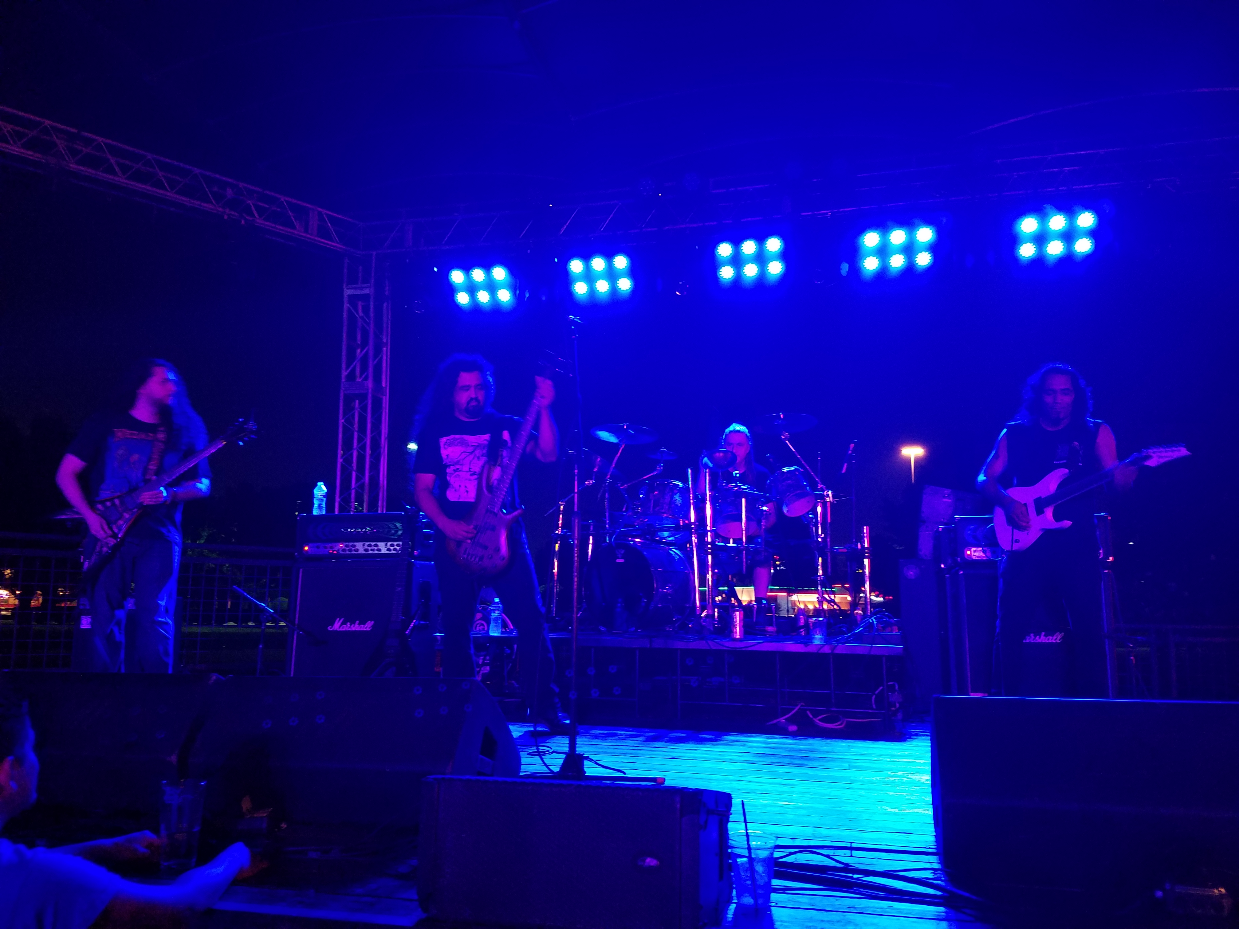 Chemicaust performing at Gas Monkey Bar N' Grill in 2017